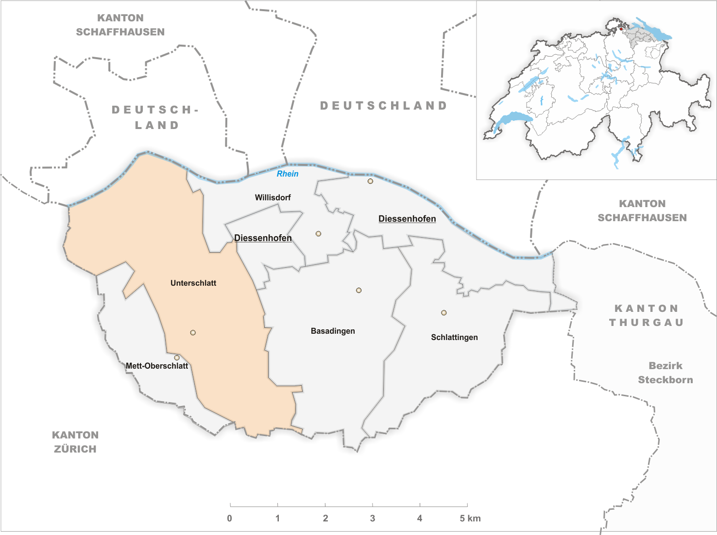 Municipality Unterschlatt